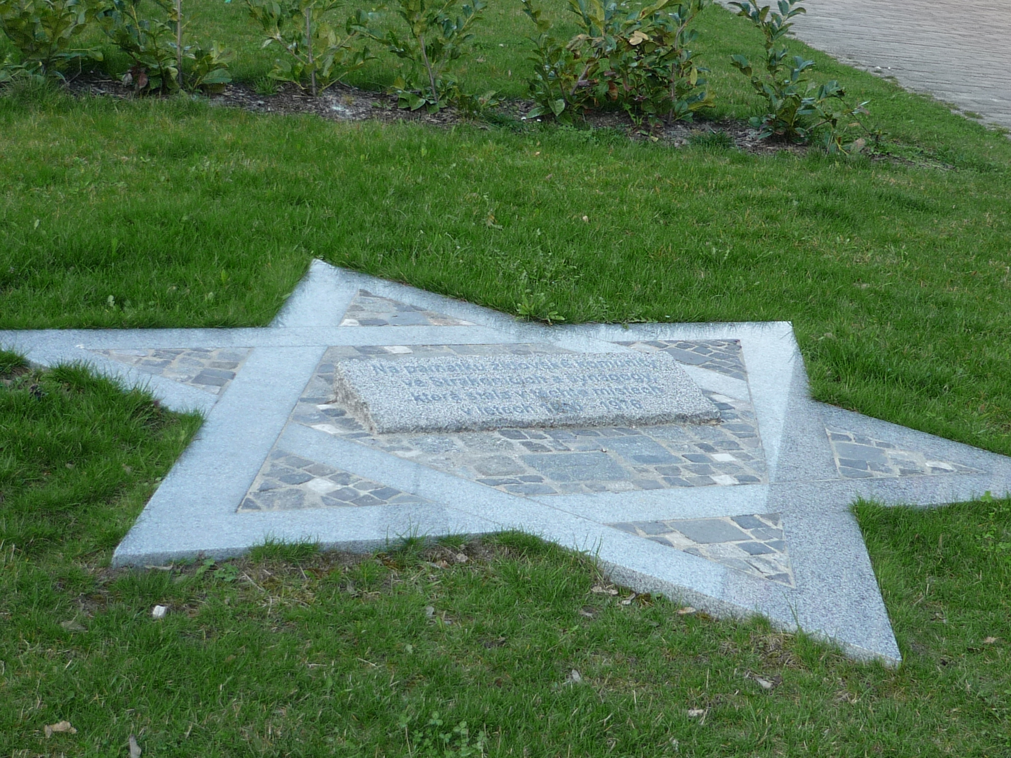 Jewish memorial at a former synagogue